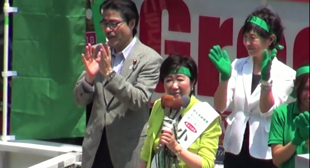 election on 2016.7.31